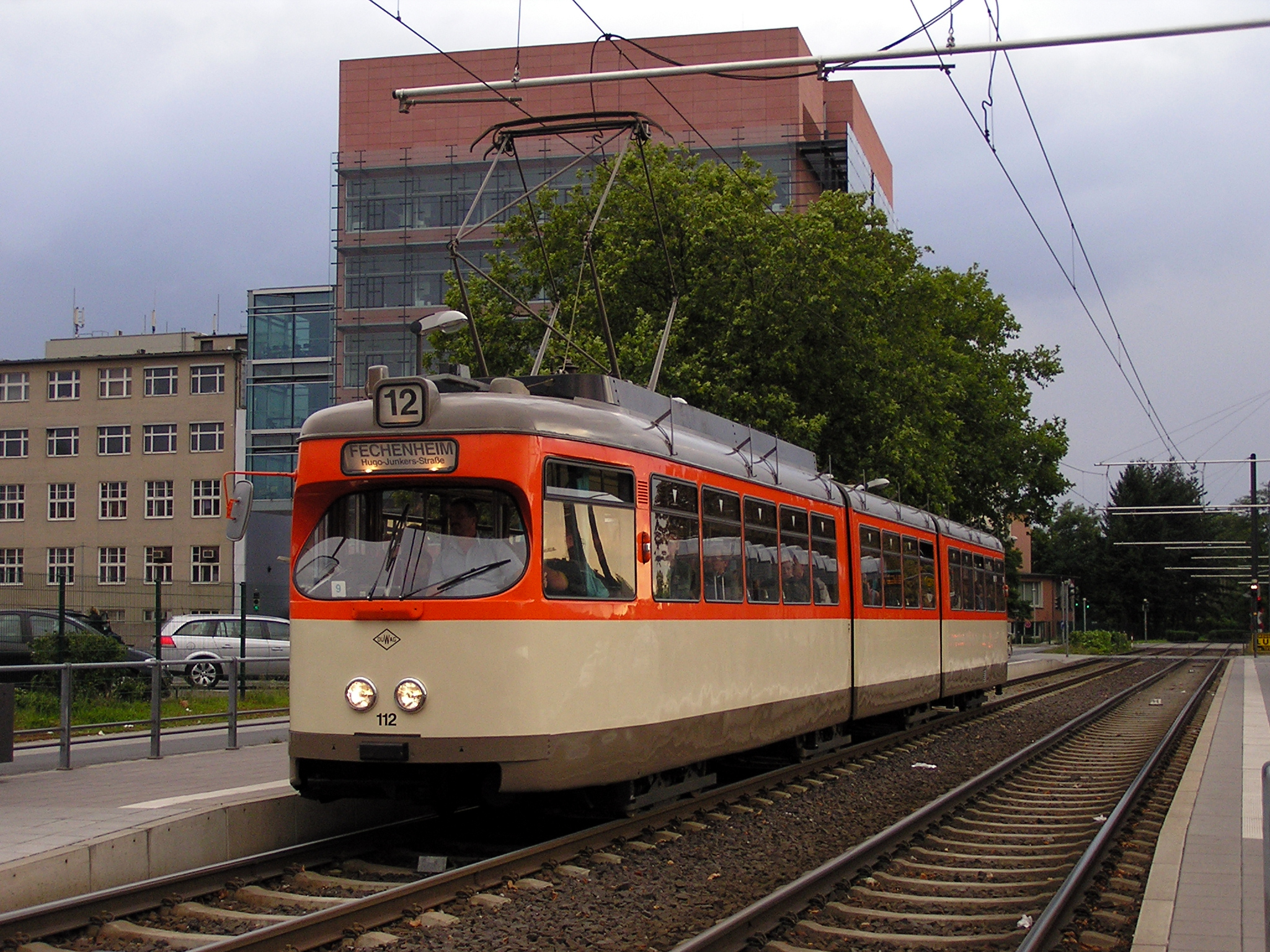 On the day of traffic history 2008 four historic tram cars of Frankfurt ran as line 12 from Hugo-Junkers-Straße to Rheinlandstraße (transport museum). The photo shows a N railcar.